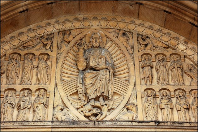 St Anne's Cathedral, Belfast (detail). See 574734. Part of the detail above the entrance. It represents "Christ in Glory" and depicts a number of saints. Carved by Esmond Burton whose work can also be found in St Paul's and Ripon Cathedrals. Continue to 621328.